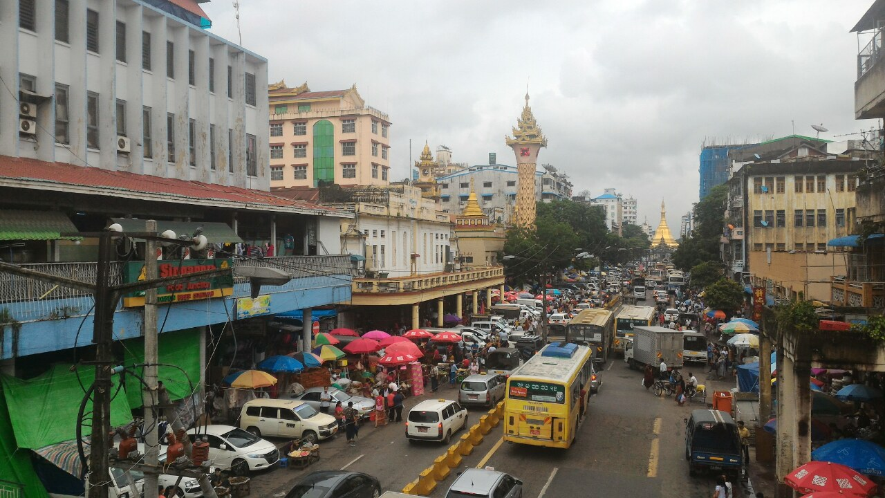 Theingyi Market Bandoola Road